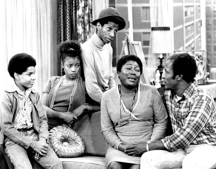 Photo of the Evans family from the television program Good Times. From left: Ralph Carter (Michael), BernNadette Stanis (Thelma), Jimmie Walker (J.J.), Esther Rolle (Florida), John Amos (James).